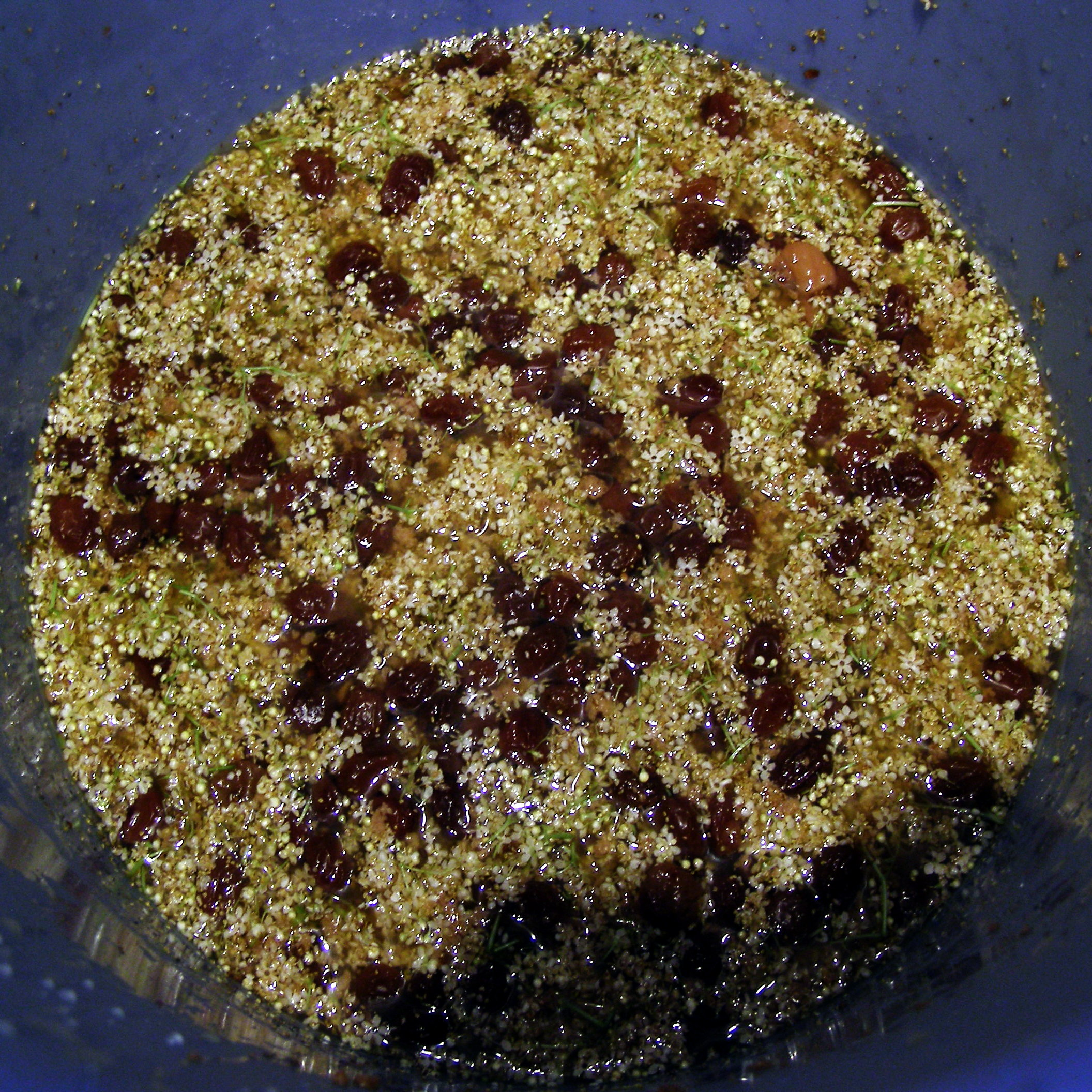 From author "A pint of elderflowers, juice of four small lemons, 450g raisins, one well beaten egg white, one teaspoon dried brewers yeast, 1kg sugar, one gallon of water. The raisins, egg white and sugar were boiled in the water for an hour an allowed to cool before everything was combined in the big bucket."